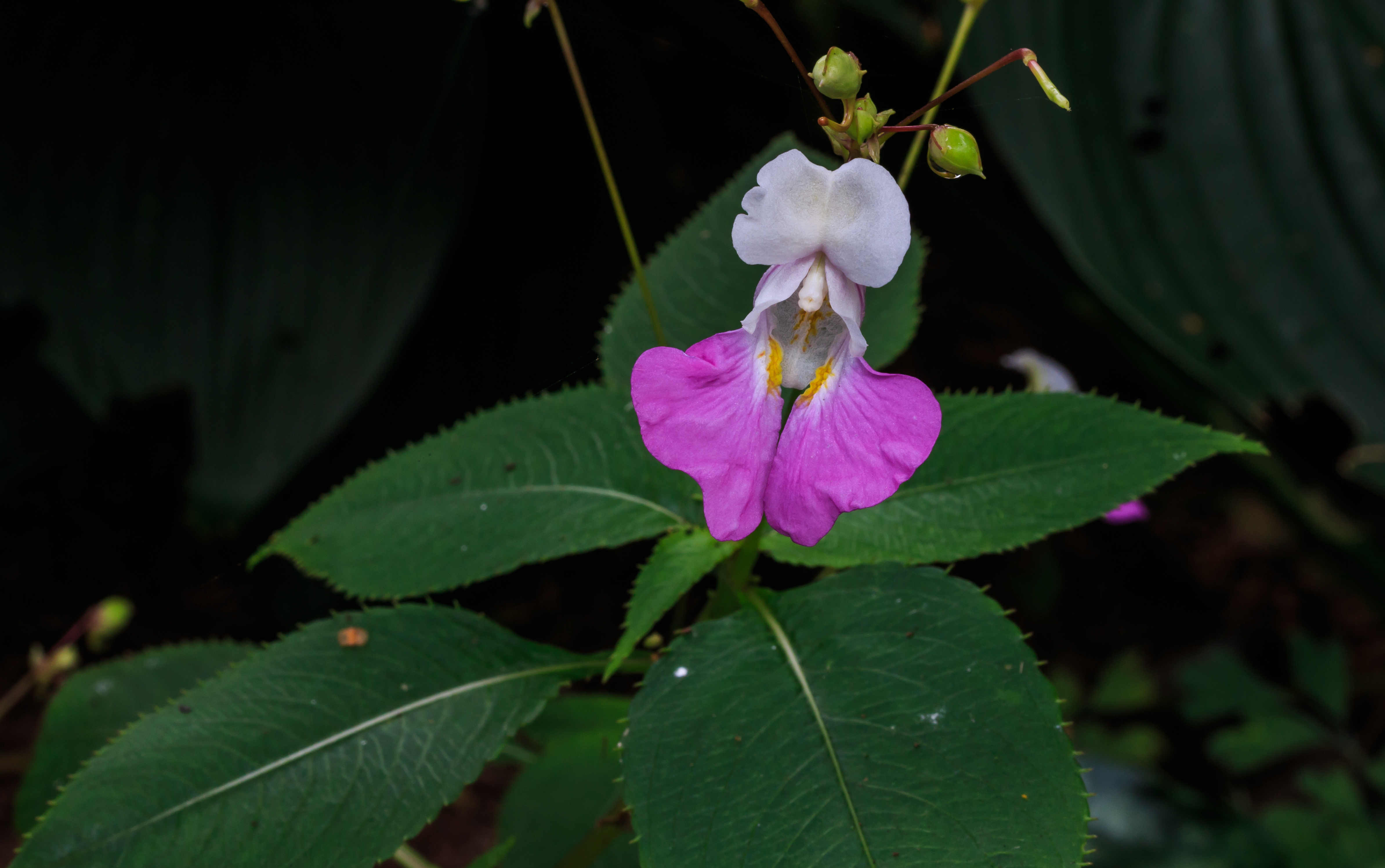 Impatiens balfourii